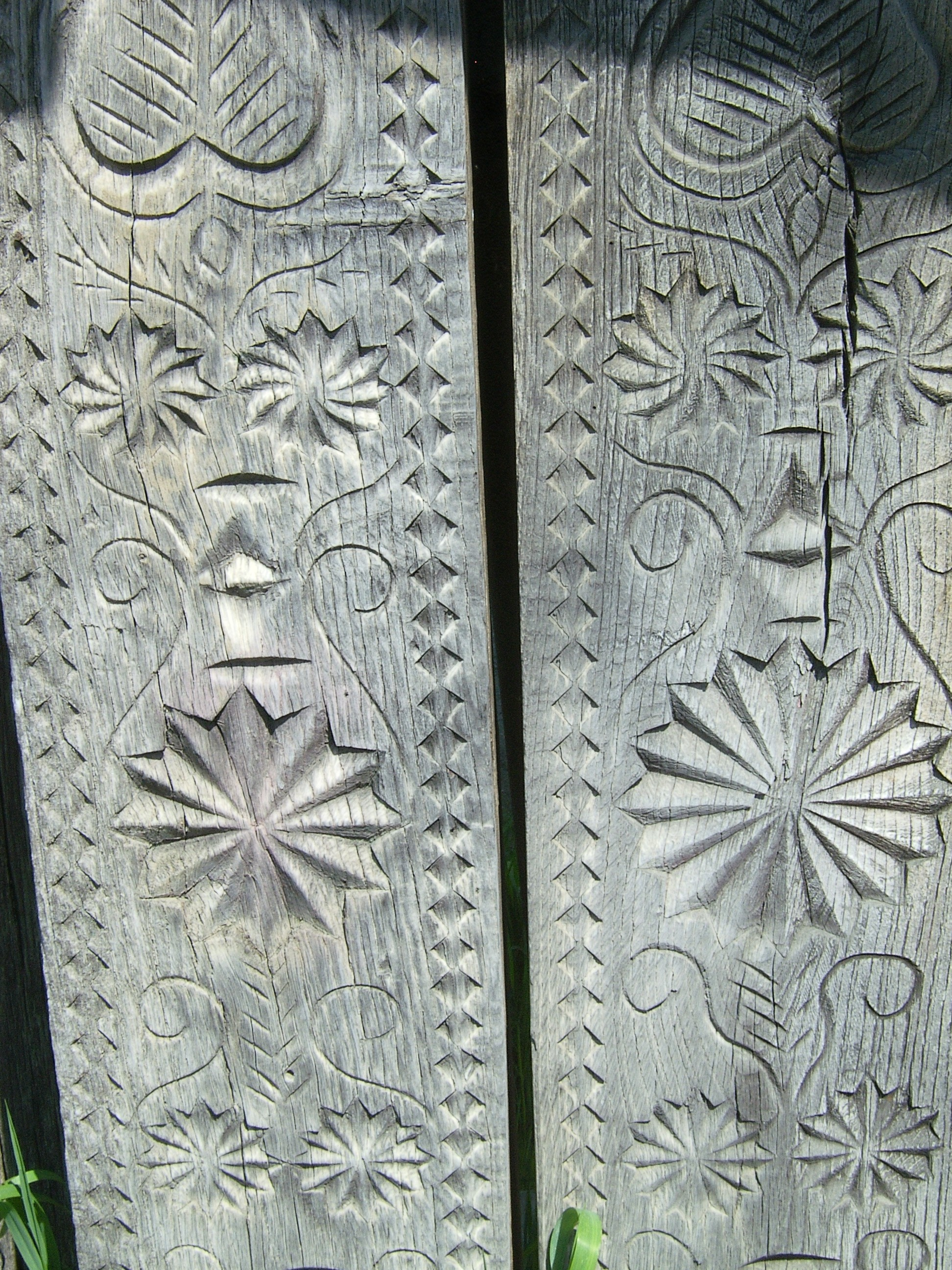 Decoration in Izvoru Crişului, Transylvania